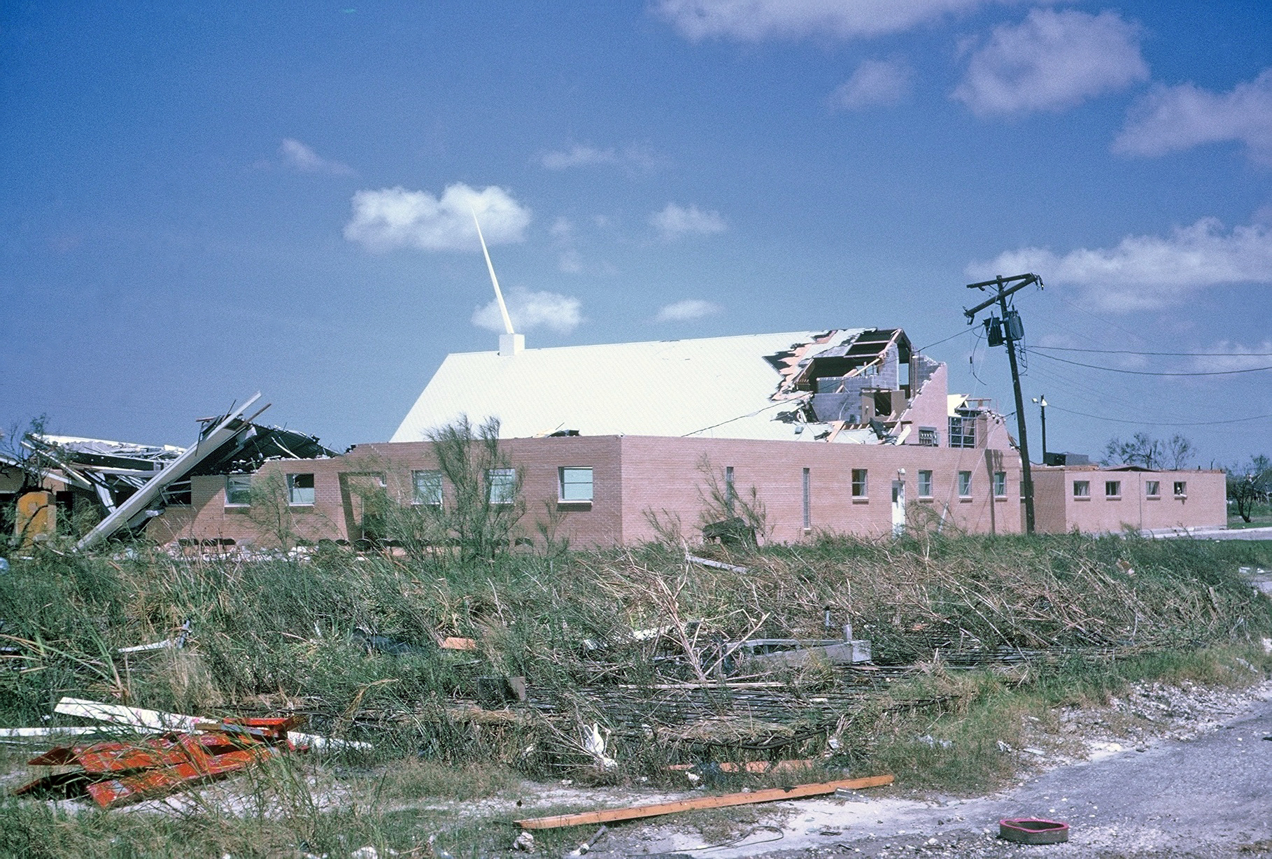 Damage to a church in Annaville, Texas, caused by Hurricane Celia.